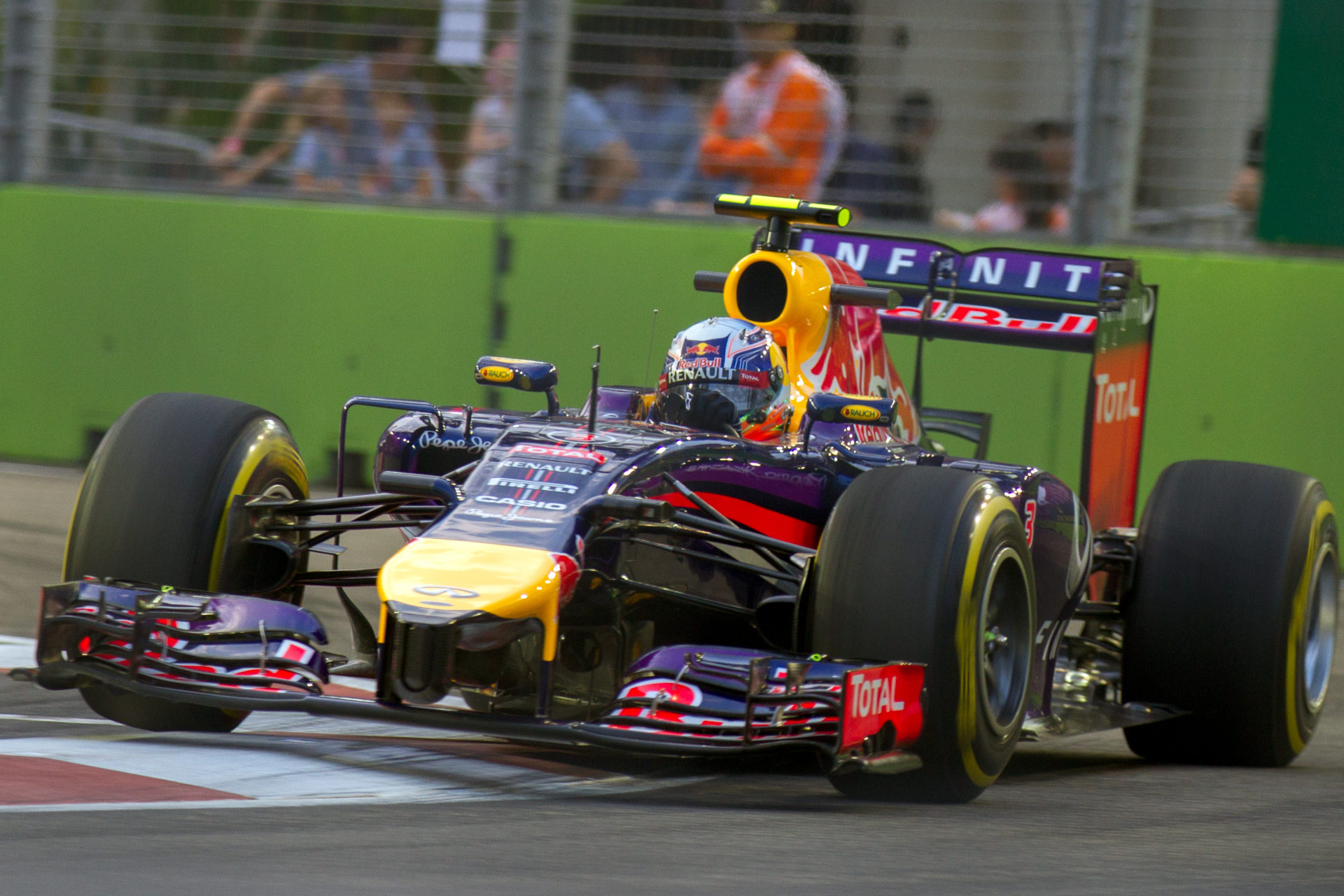 Formula One 2014 Rd.14 Singapore GP: Daniel Ricciardo (Red Bull)